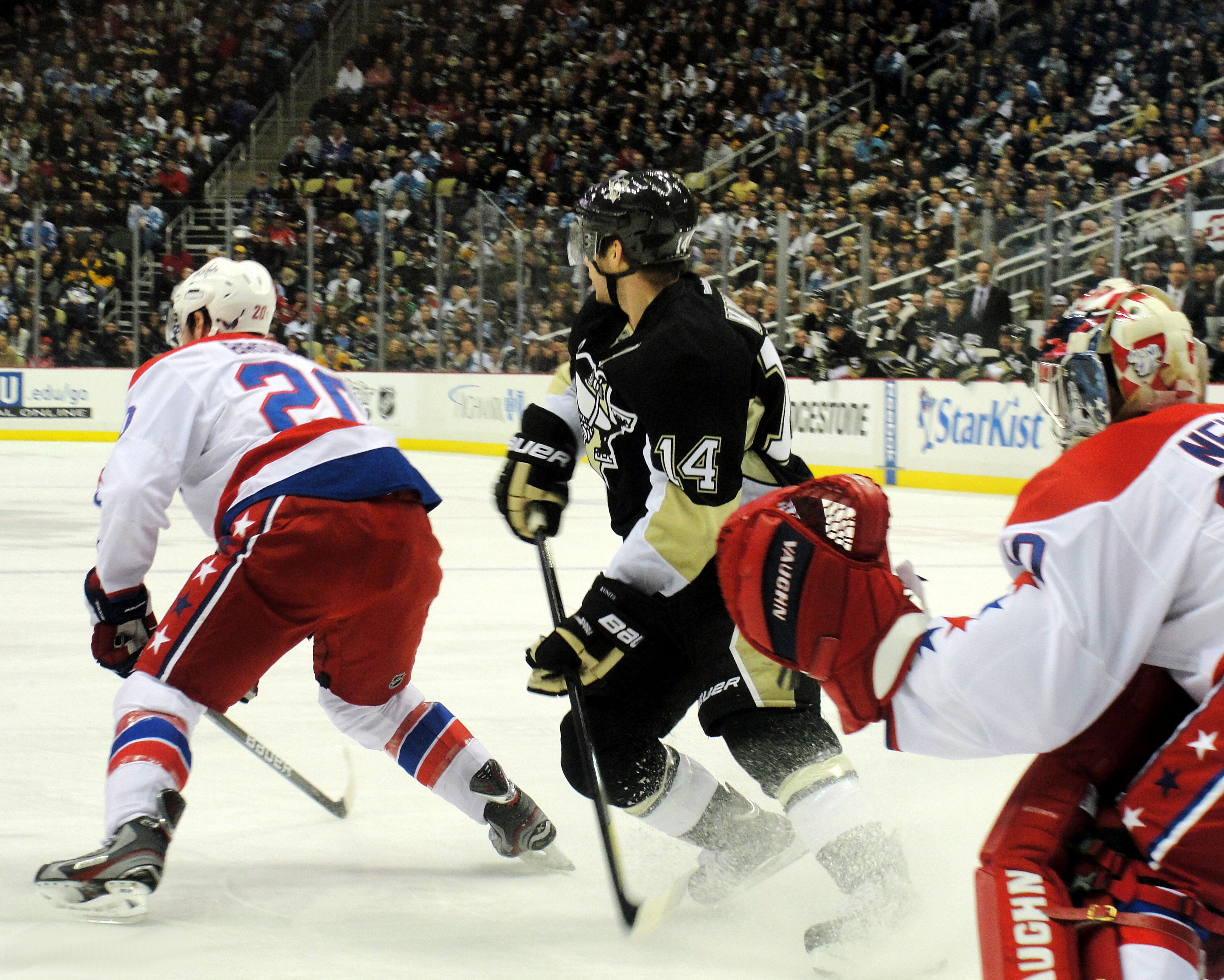 Chris Kunitz of the Pittsburgh Penguins in a game against the Washington Capitals, January 22, 2012 at Consol Energy Center in Pittsburgh, PA. From PensAreYourDaddy.